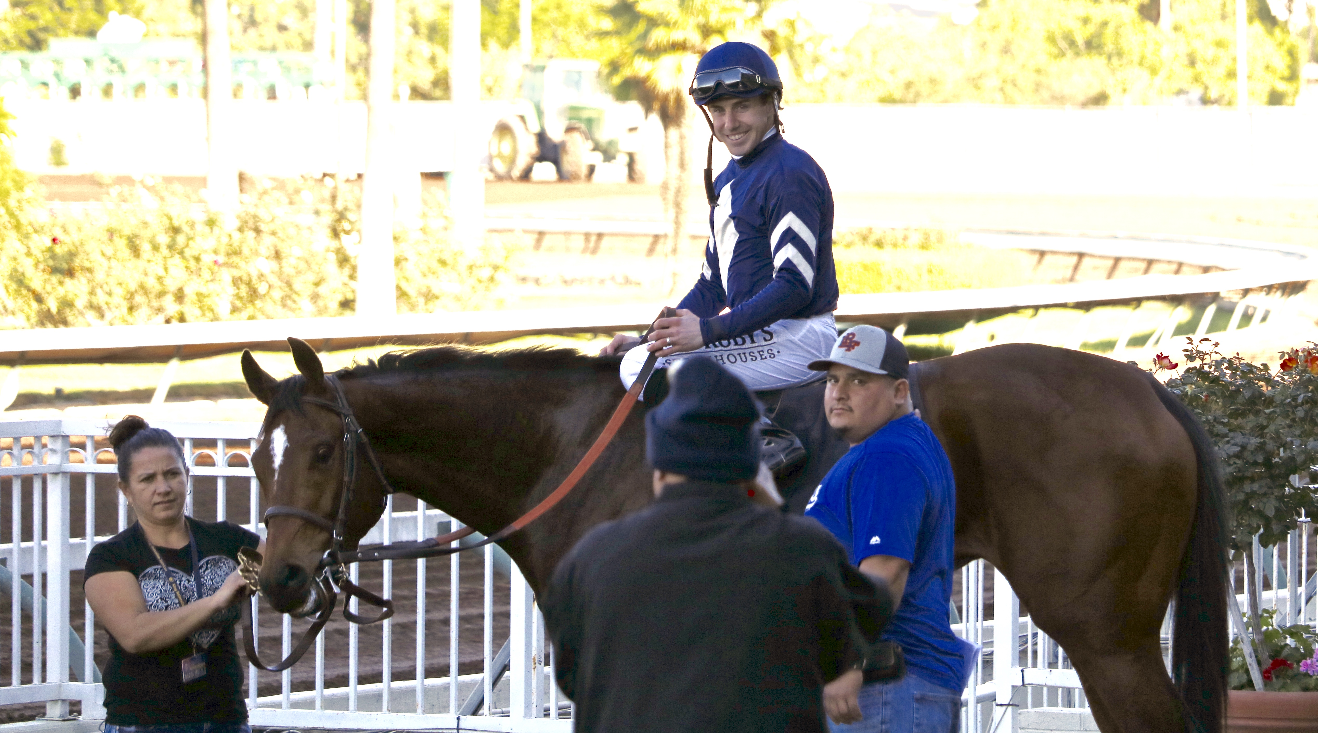 Joe Talamo in the winner's circle at Los Alamitos racetrack December 17, 2016